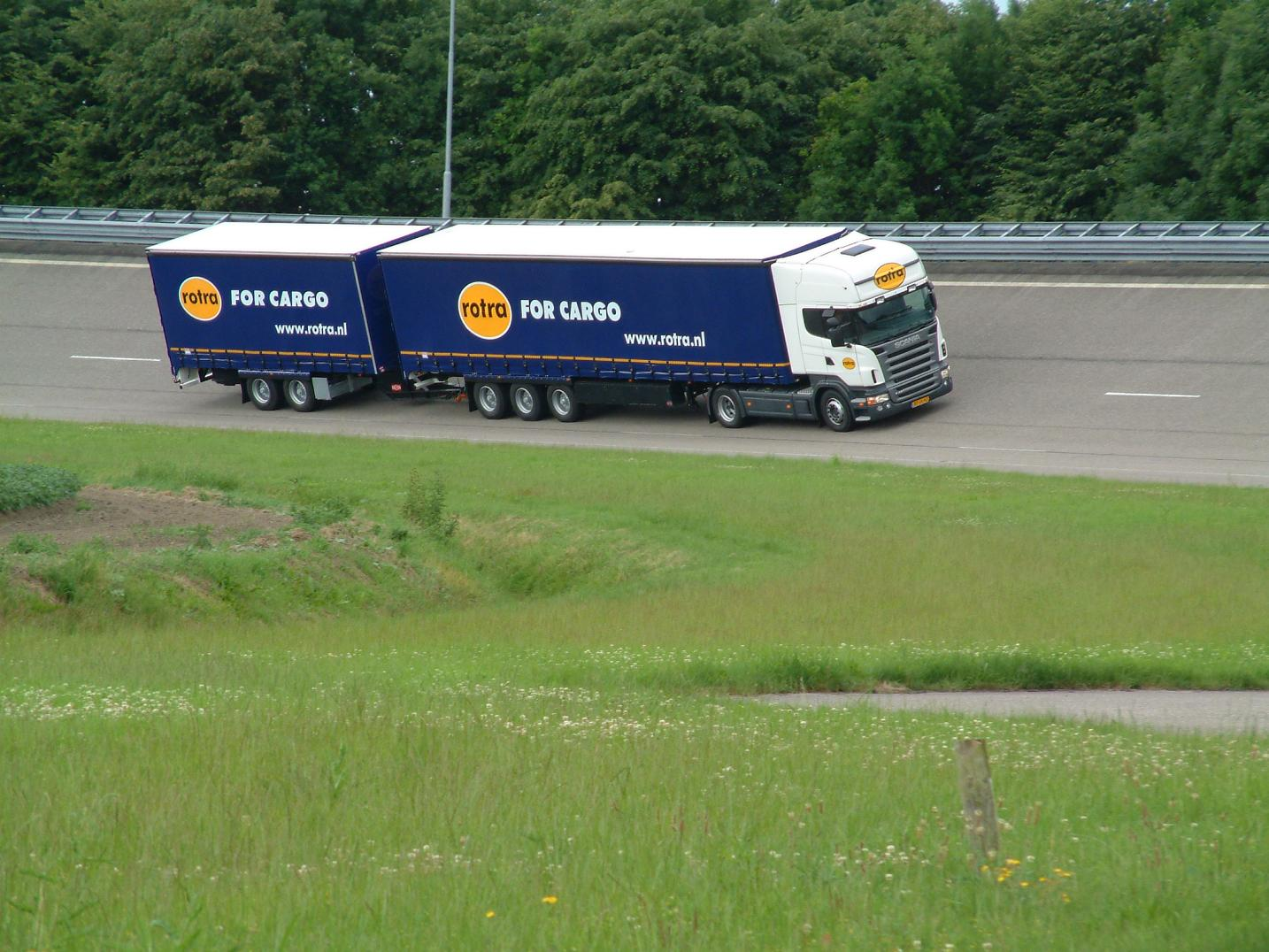 Scania P or R Series.